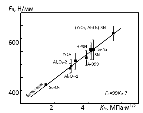 It was demonstrated on the flaking resistance–critical stress intensity factor diagram that the values for ceramics with enhanced damage resistance were found to the left of the base line, while those of homogeneous linear elastic ceramics fell on this line